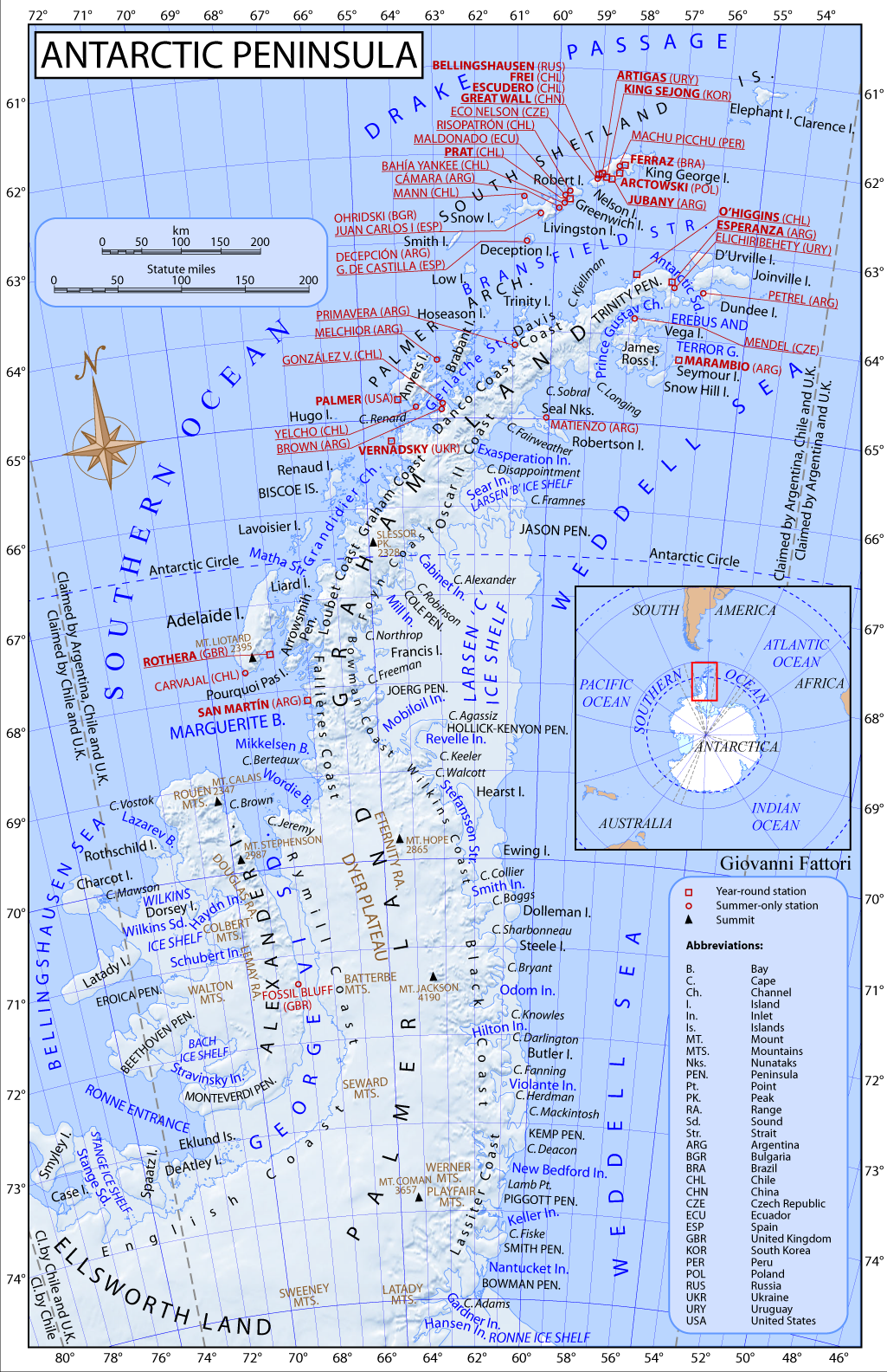 Map of Antarctic Peninsula, stations locations, shared relief. Projection Equidistant conic B. S. parallel 1:-65. S. Parallel 2:-71. Central meridian:-62. Shared relief from NASA data